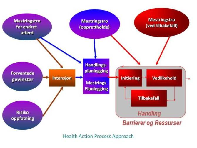 HAPA, Health Action Process Approach